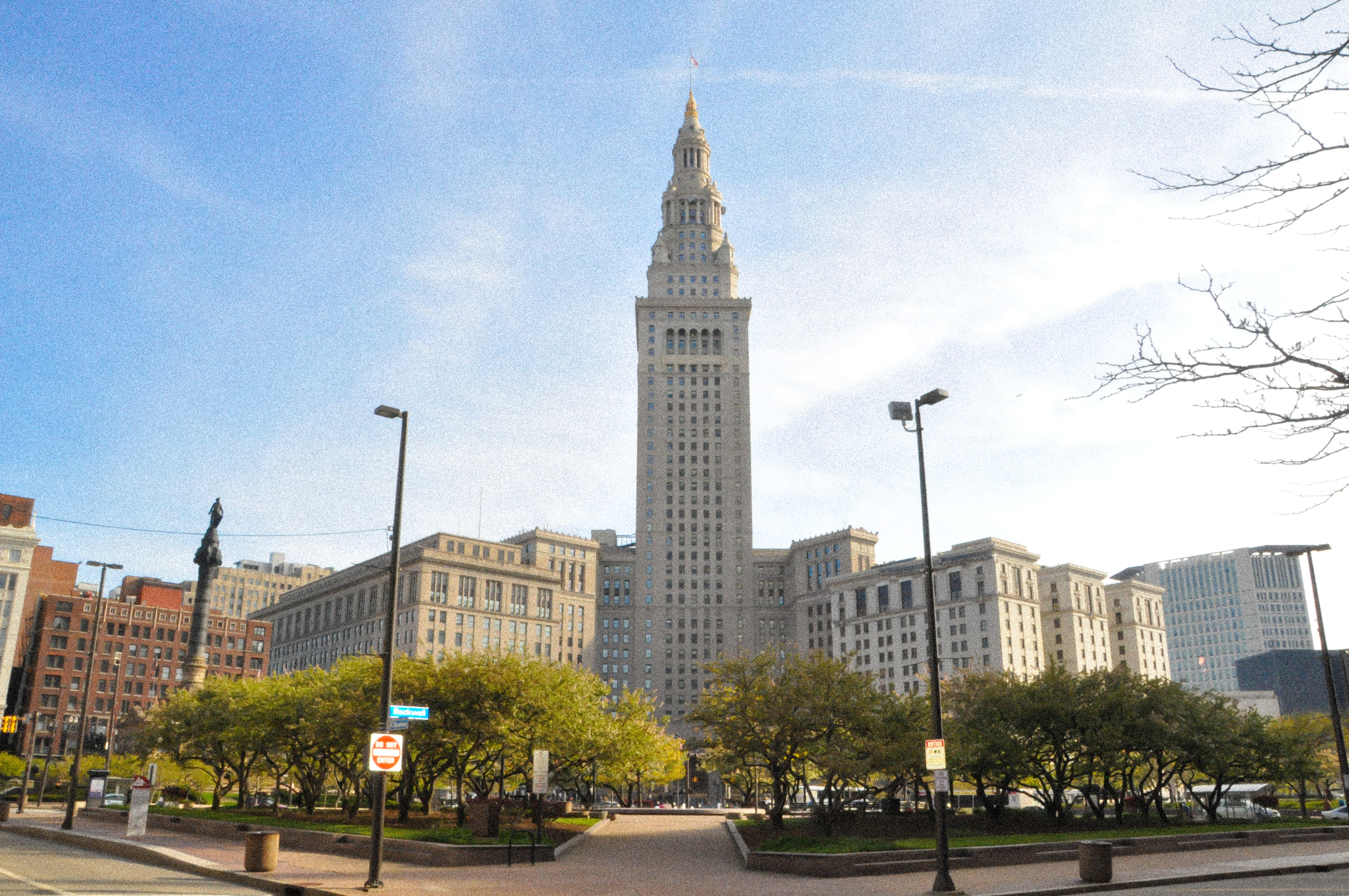 The Tower City Center complex rises behind Cleveland's Public Square.